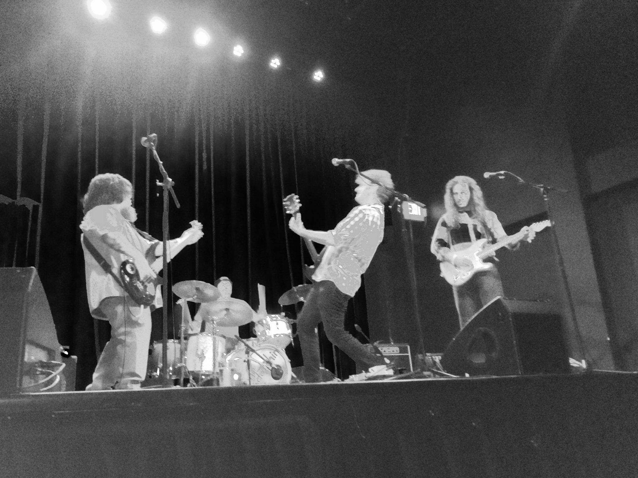 Thunderegg rocking the Uptown, Oakland CA, September 2016. Left to right: Alex Jimenez, André Custodio, Will Georgantas, Reese Douglas